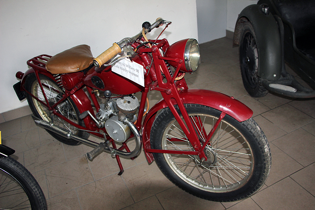 Motorcycle Villiers 98